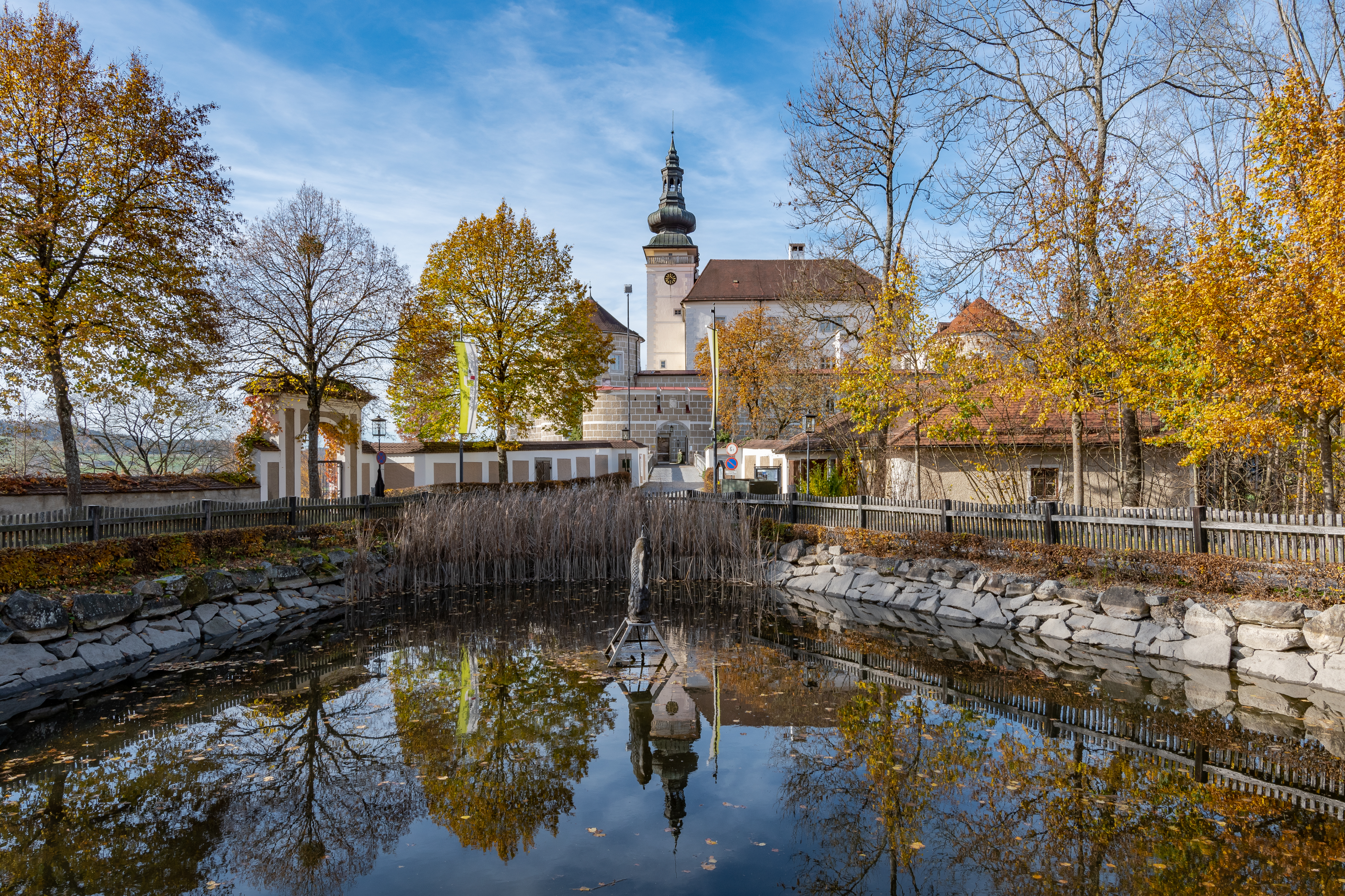 Castle Weinberg is situated on a ridge over Kefermarkt. Park and garden were laid out at the begin of the 17th century.